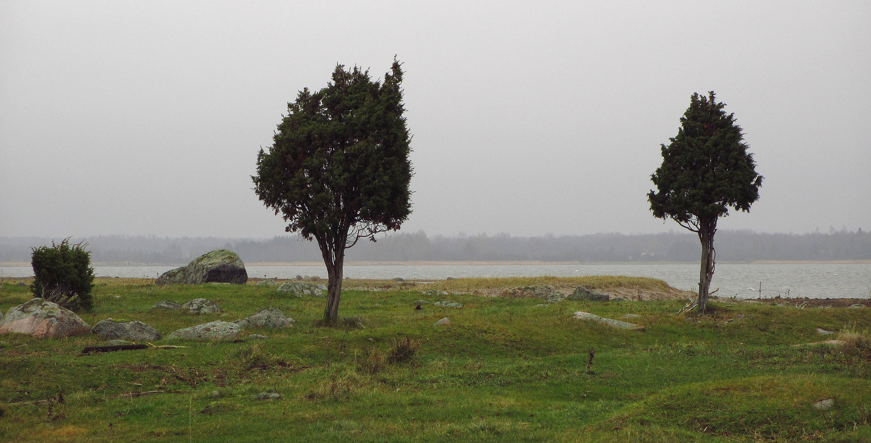 Hooldatud rannaniit Kastna LKAl